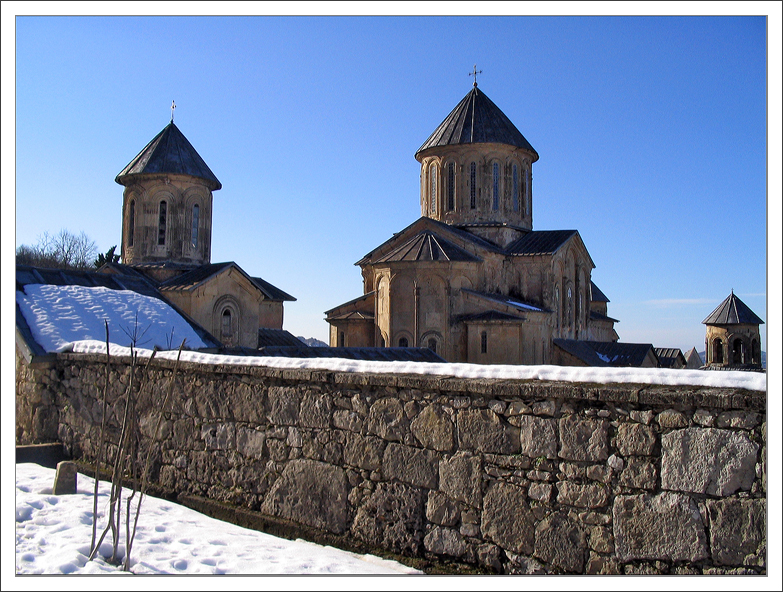 The Monastery of the Virgin - Gelati near Kutaisi (Imereti region of Western Georgia, South Caucasus) was founded by the King of Georgia David the Builder (1089-1125) in 1106. The Gelati Monastery for a long time remained one of the main cultural and enlightening centers in old Georgia. It had an Academy which employed the most celebrated Georgian scientists - theologians and philosophers, many of whom had previously been active at various orthodox monasteries abroad or at the Mangan Academy in Constantinople. Among the scientists were such celebrated scholars as Ioann Petritsi and Arsen Ikaltoeli. The Gelati Monastery has preserved a great number of murals and manuscripts dating back to the 12th-17th centuries. In Gelati is buried one of the greatest Georgian Kings David the Builder (Davit Agmashenebeli in Georgian). In 1994, Gelaty Monastery was recognized by UNESCO as world heritage site.